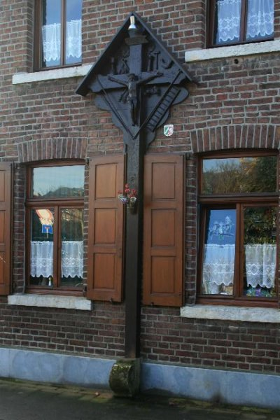 Cultural heritage monument No. 57 in Gangelt